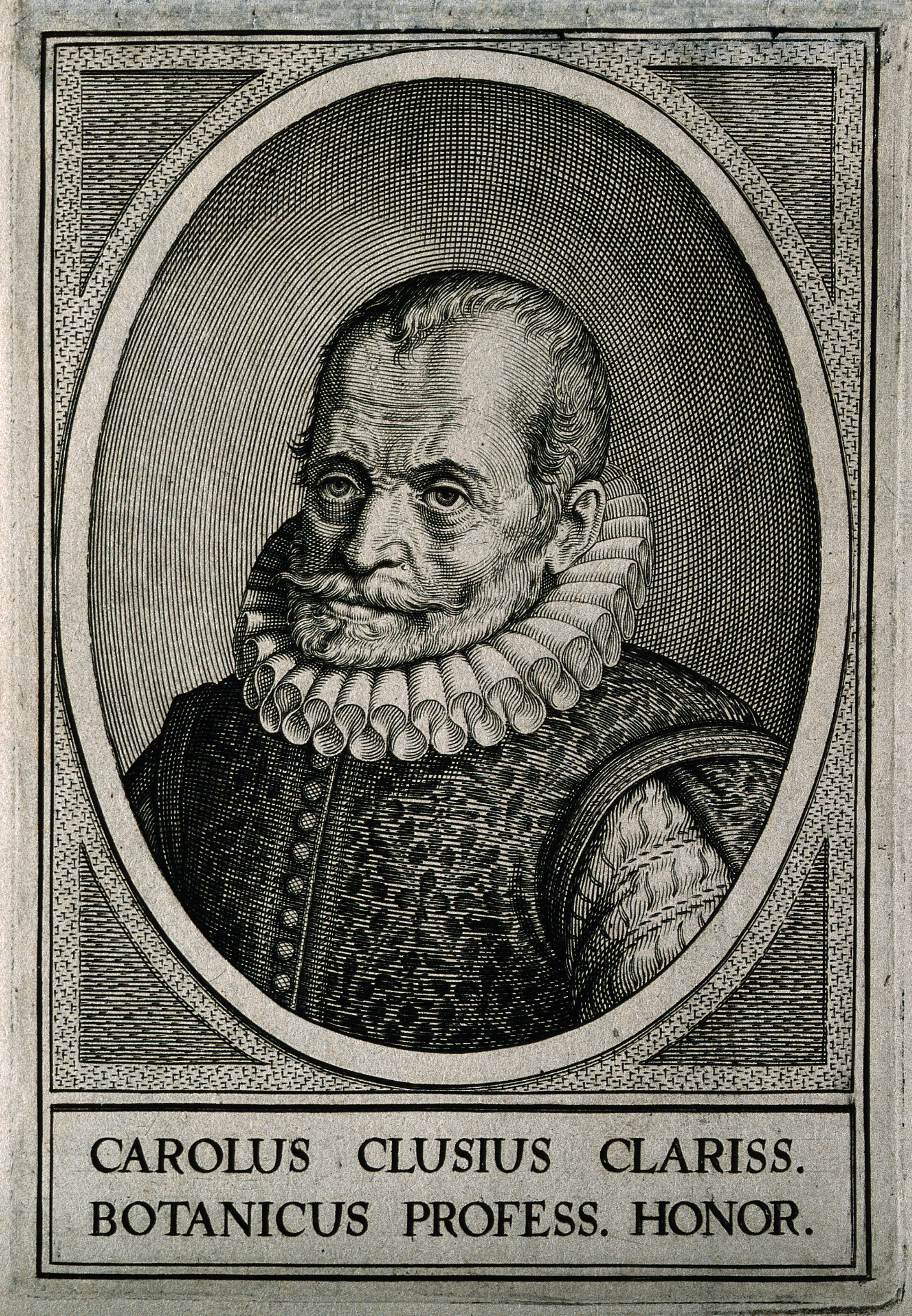 Portrait of Charles de l'Écluse, L'Escluse, or Carolus Clusius (1526 – 1609), a Flemish doctor and pioneering botanist. Iconographic Collections Keywords: portrait prints; engravings; Willem Isaac Swanenburgh; Carolus Clusius; Jacob de Gheyn